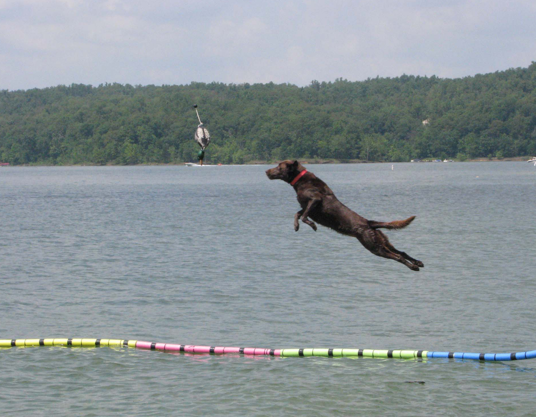 A 'dock dogs' fun jump competition was held at Nolin Lake in July. Dock Dogs is a competition where the dogs jump off the end of a dock for distance.